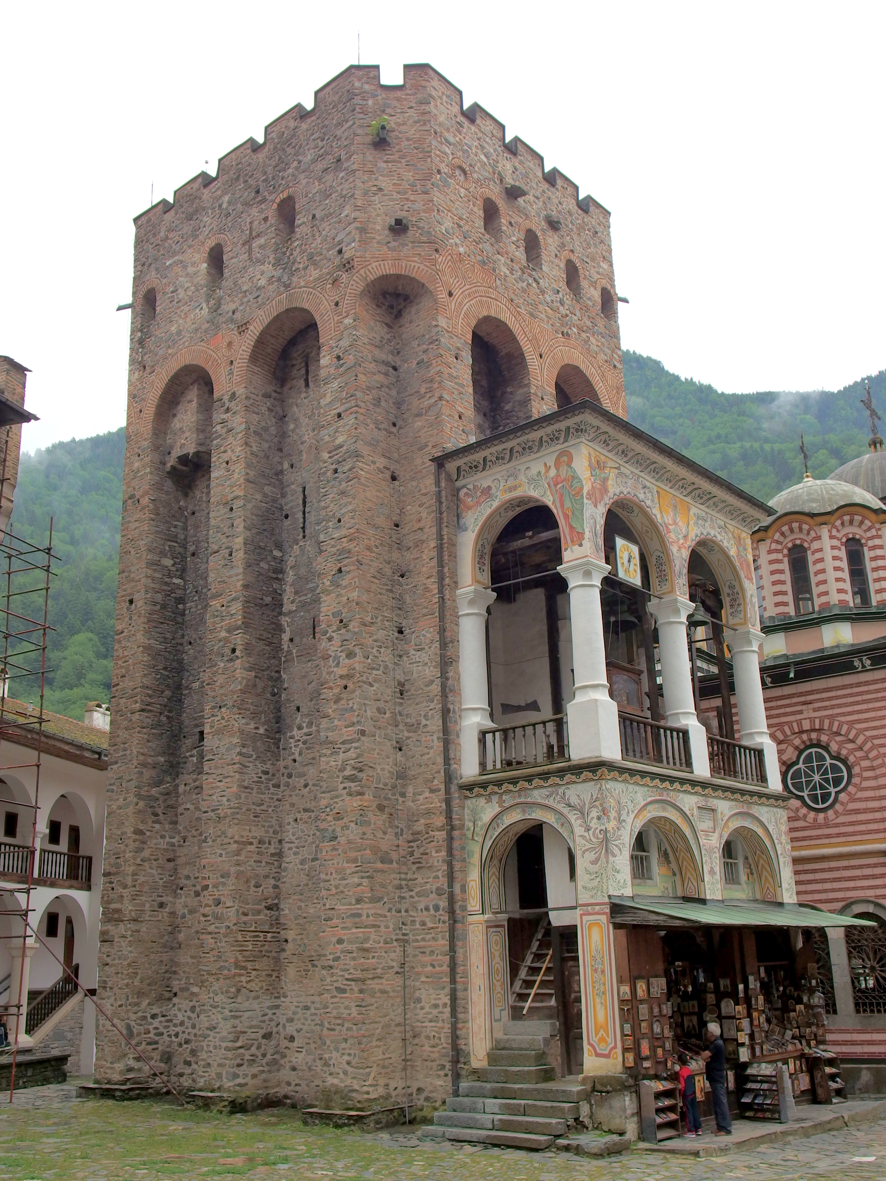 2014-06-17 at Rila Monastery.